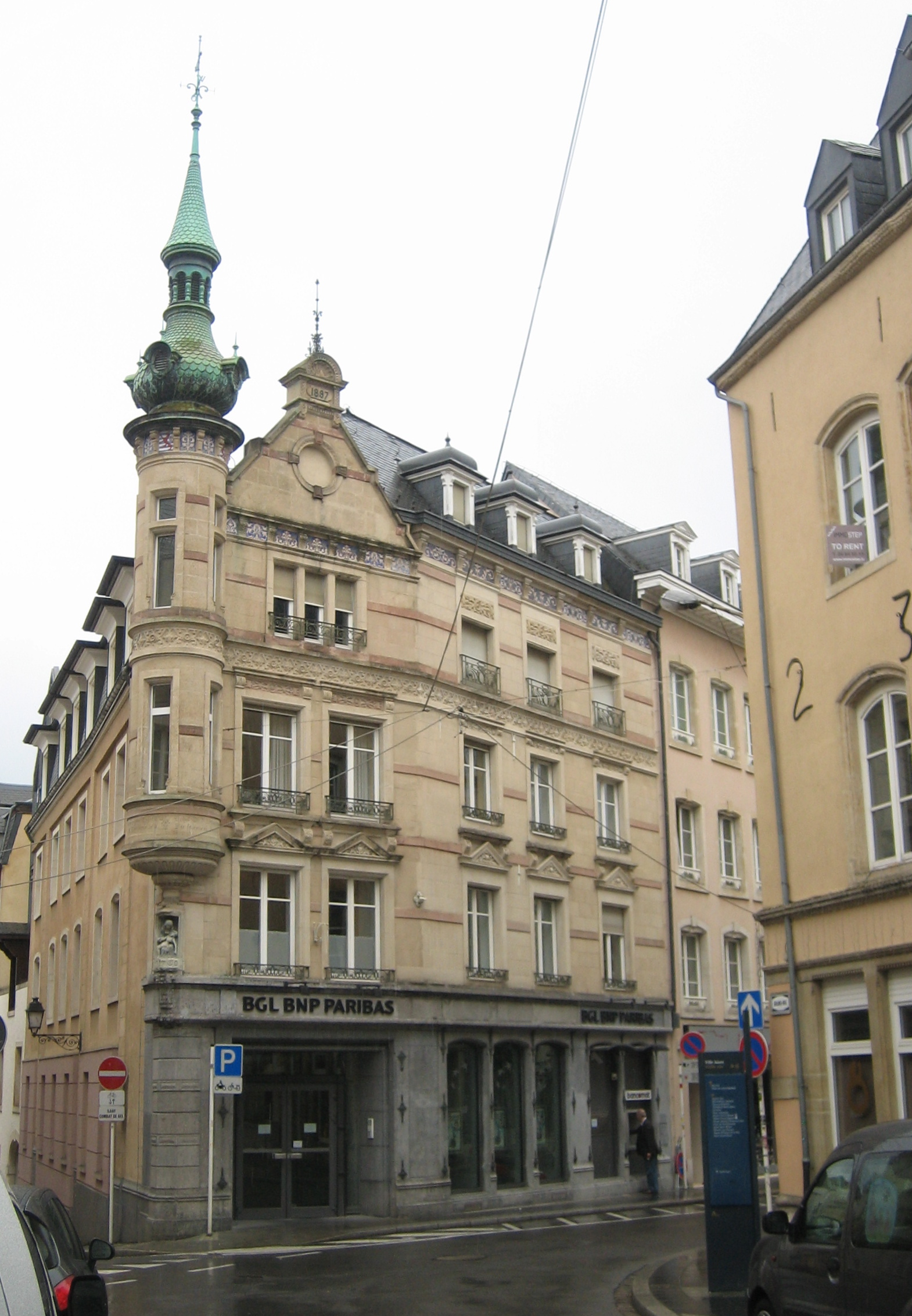 House at 1-3, Rue du Marché aux Herbes in Luxembourg City, since 30 November 1989 on list of "Inventaire supplémentaire" of Cultural heritage monuments.